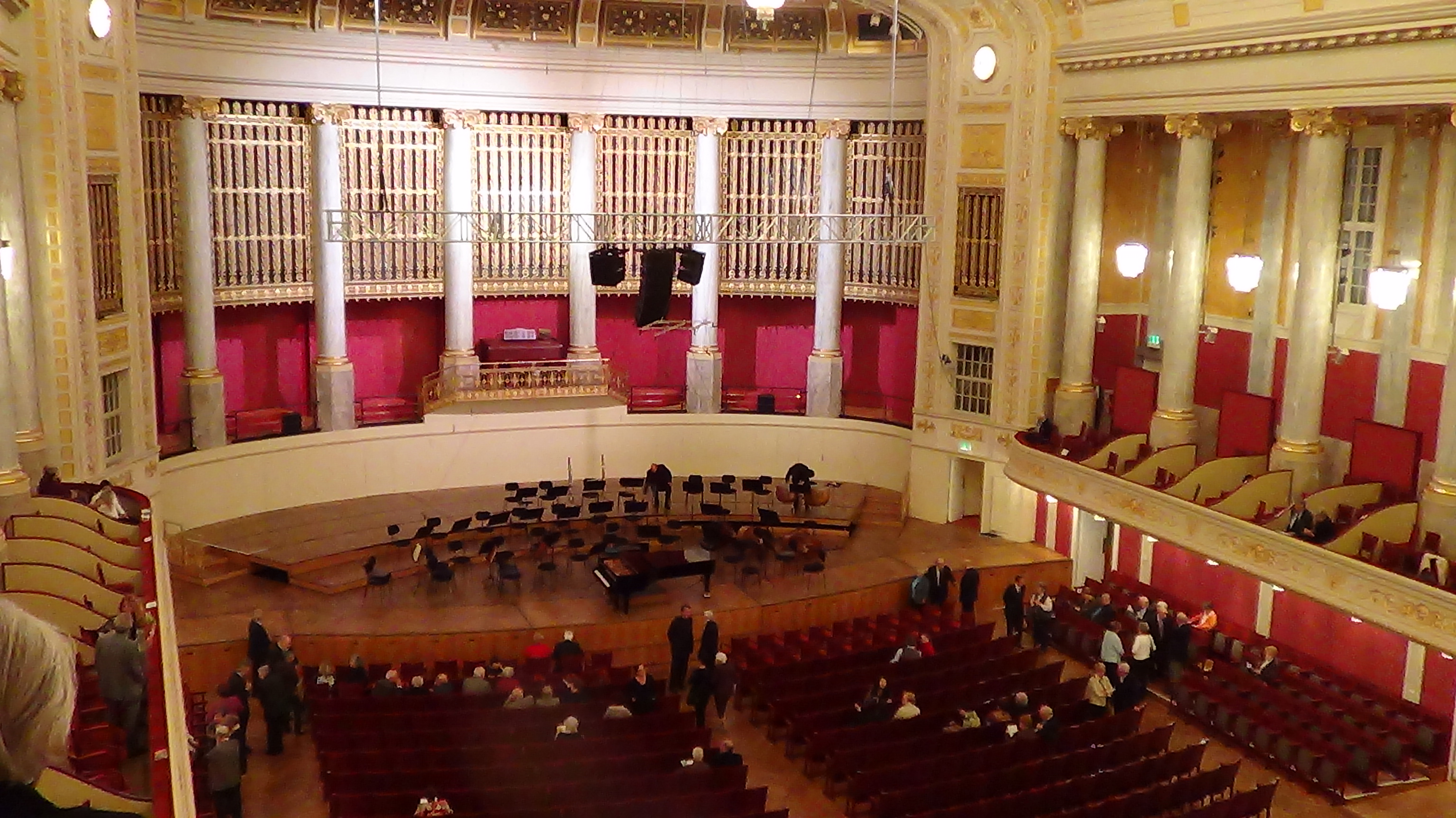 Konzerthaus, Vienna, November 2012